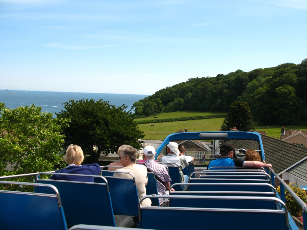 Passengers riding on Devonian Motor Services' route 500 get a view across Broadsands and Torbay from the top of their open top bus.